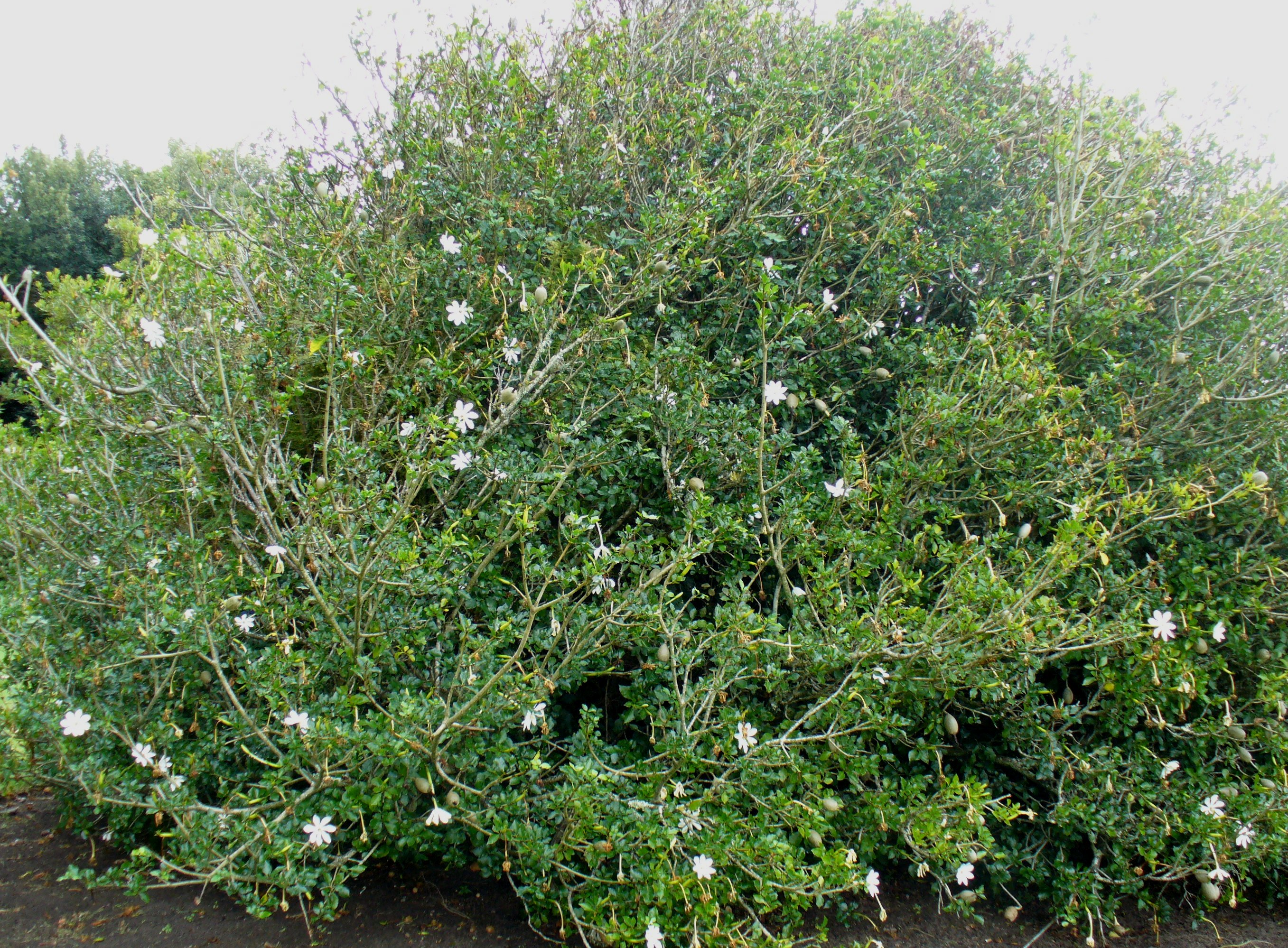 White gardenia